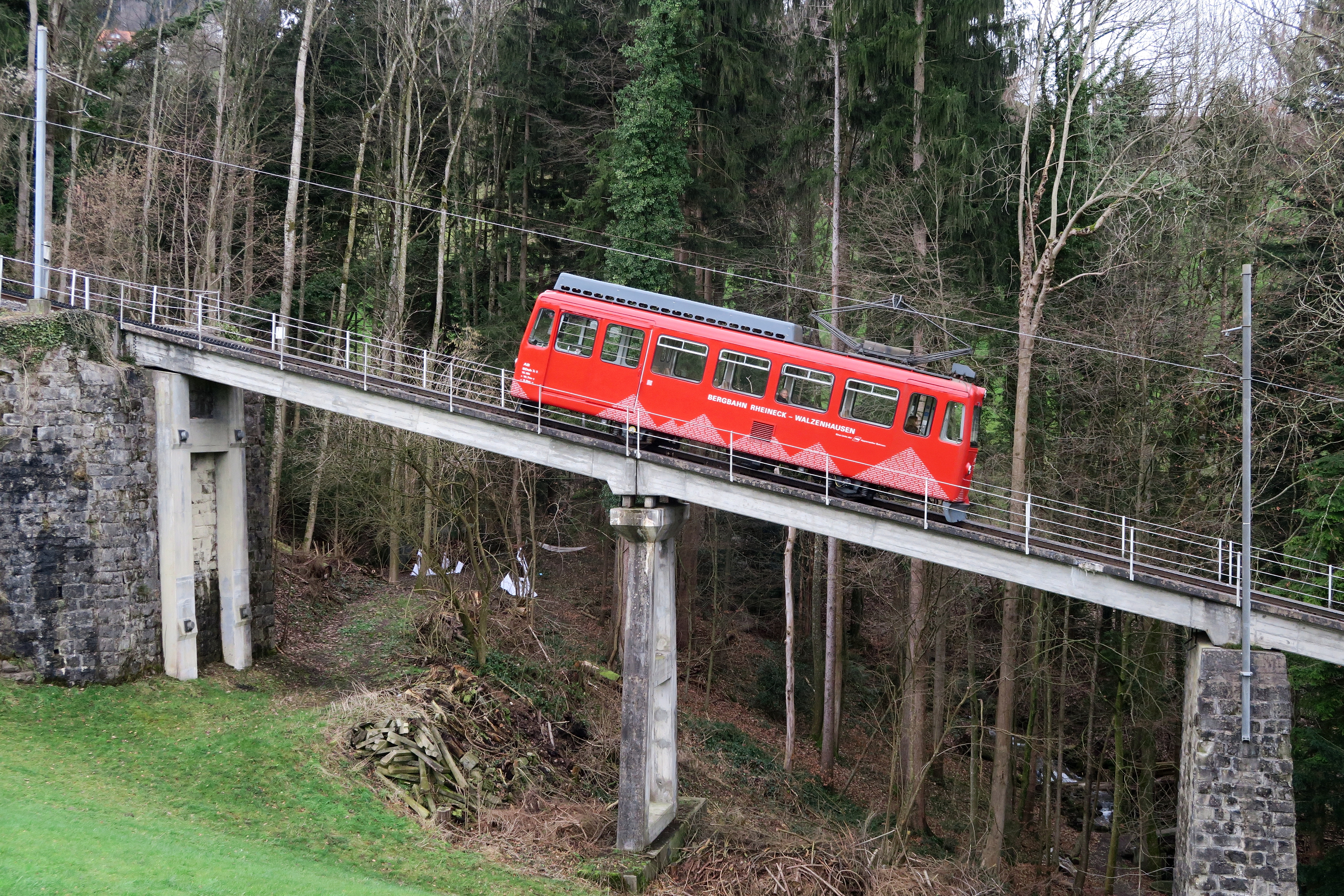 The upper of the two bridges with a length of 153 m was renewed in 1958. The old masonry pillars were left standing and a new concrete structure was inserted. The gradient is 25 percent. St. Margrethen, Switzerland, Jan 12, 2015.